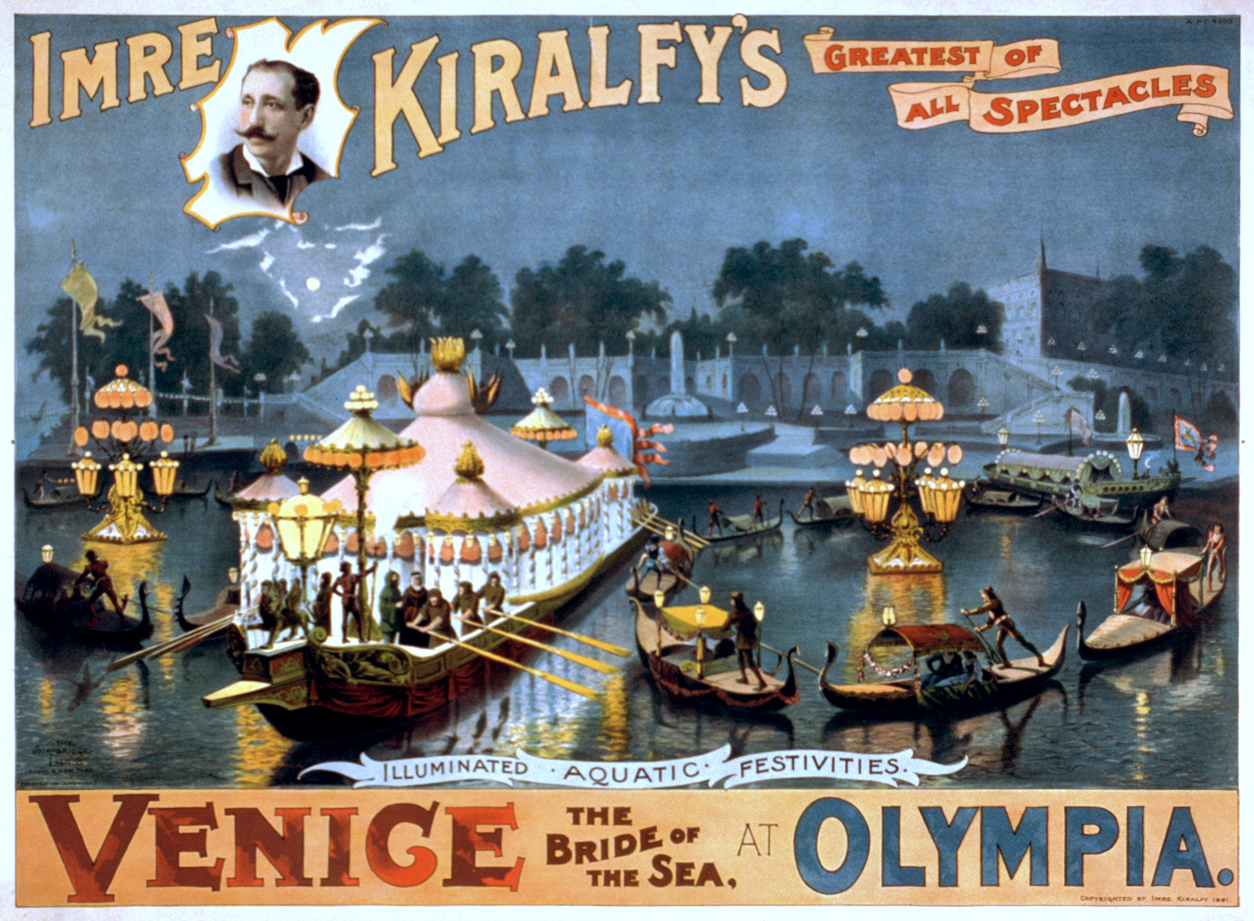 Imre Kiralfy's greatest of all spectacles. Venice, the bride of the sea, at Olympia. Illuminated aquatic festivities.